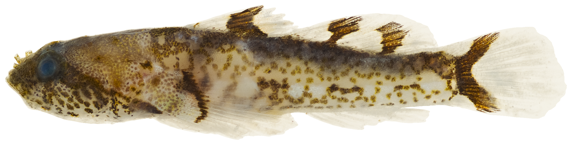 Psilotris batrachodes Böhlke, 1963—toadfish goby, 13.3 mm SL, adult. Photo by JT Williams.